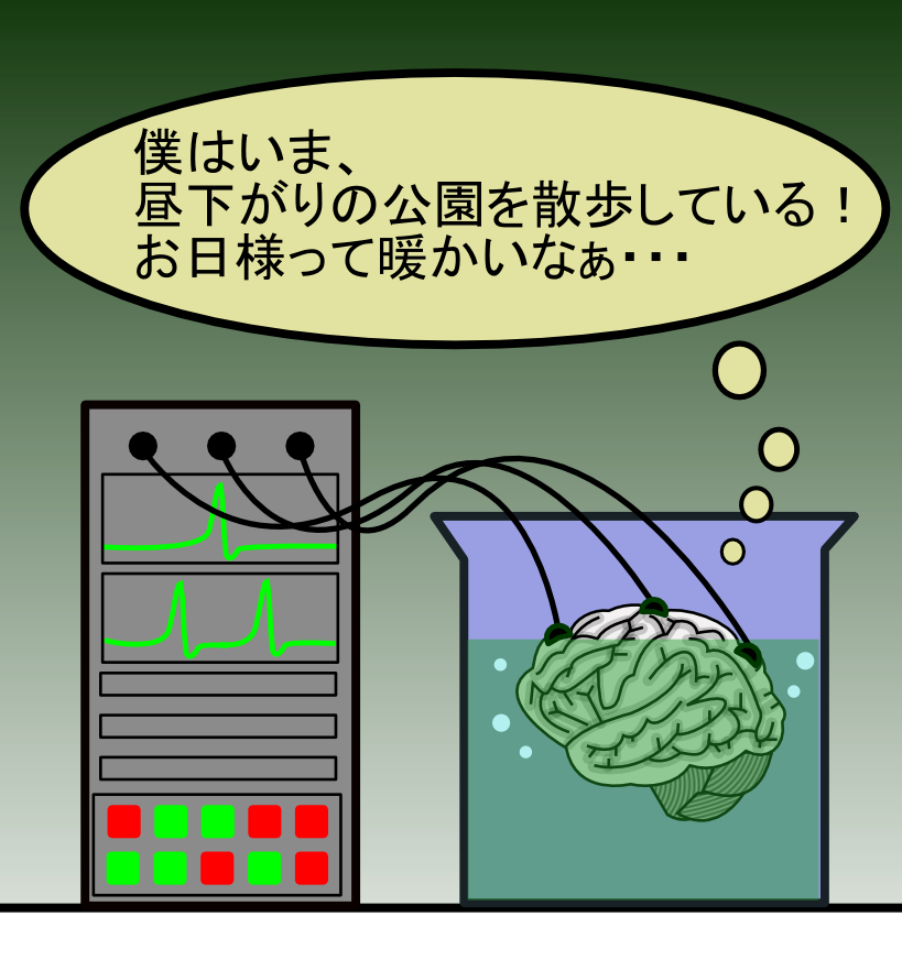 Japanese version of Brain in a vat. Famous thought experiment in philosophy of mind